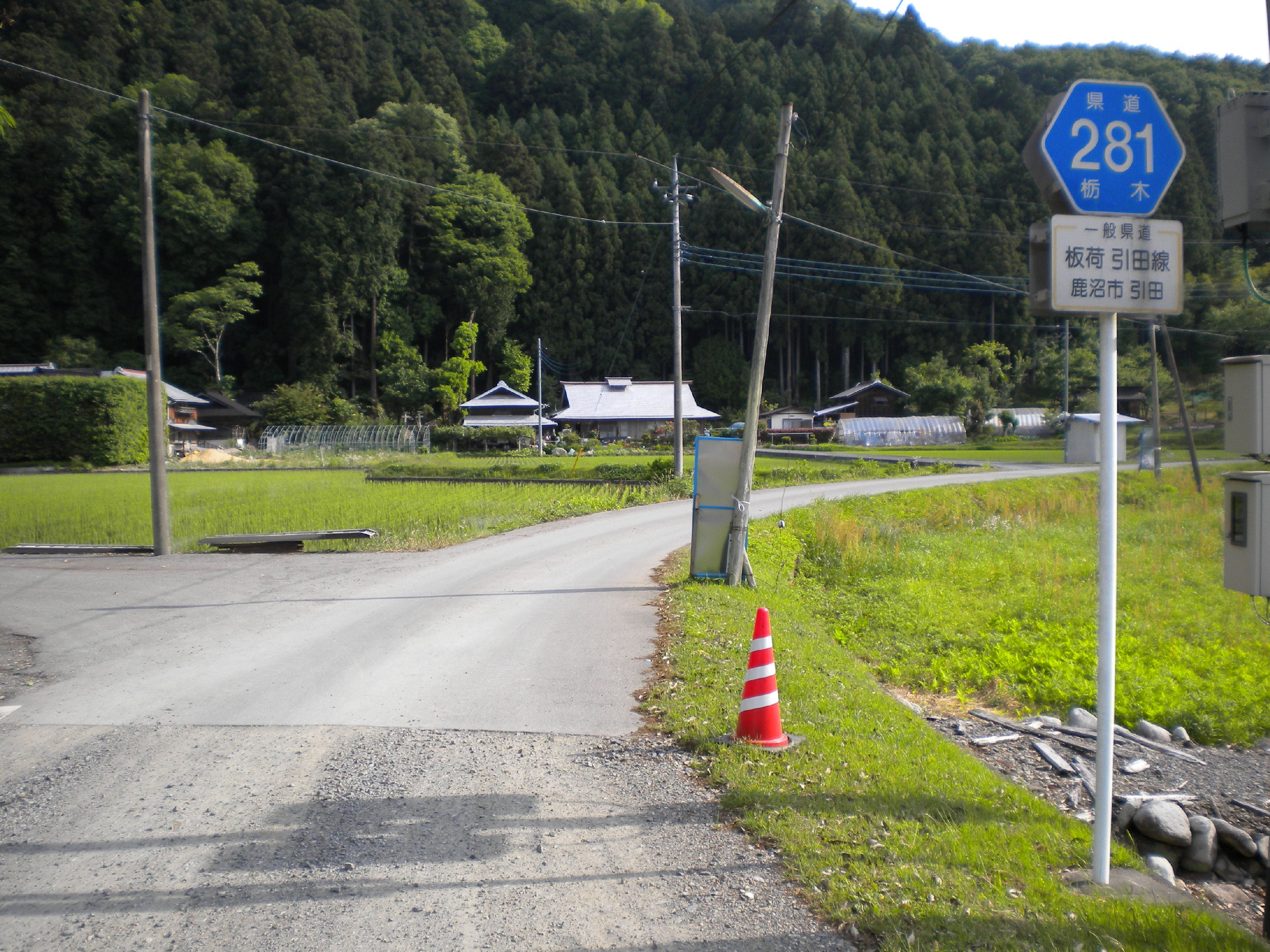 Tochigi prefectural road No.281 on Kanuma city